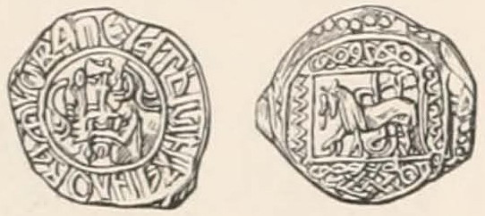 Rostov money